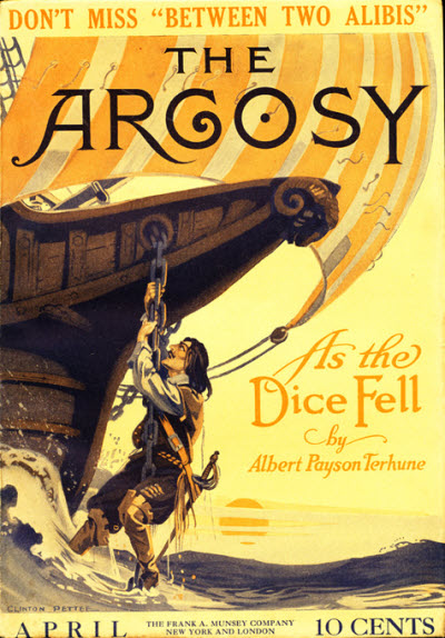 The Argosy magazine, April 1912